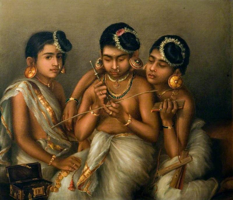 Three Nayar girls of Travancore. Oil on Canvasa